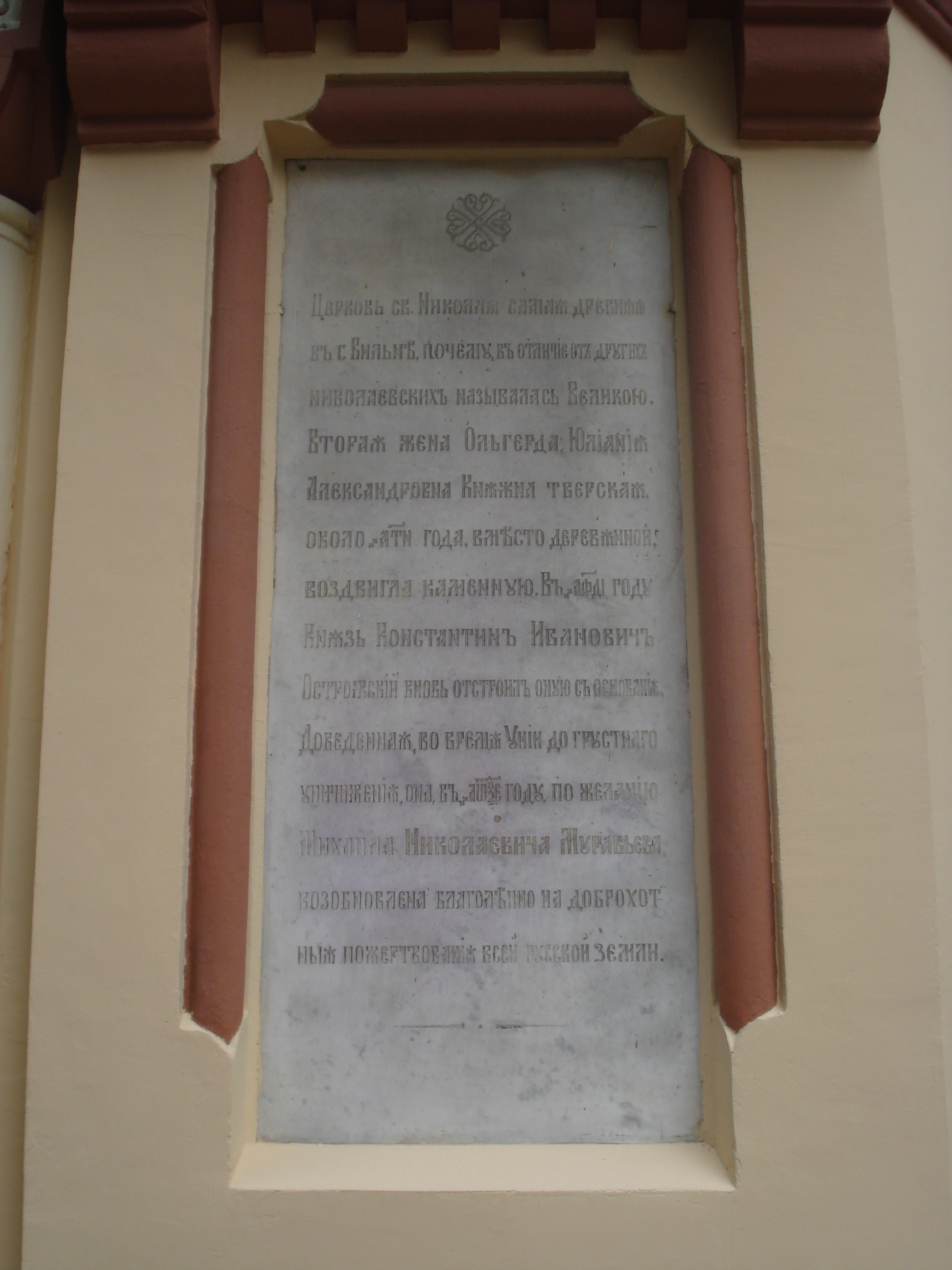 Memorial plaque on the wall of Russian Orthodox Church of St. Nicholas (Didžioji g. 12).